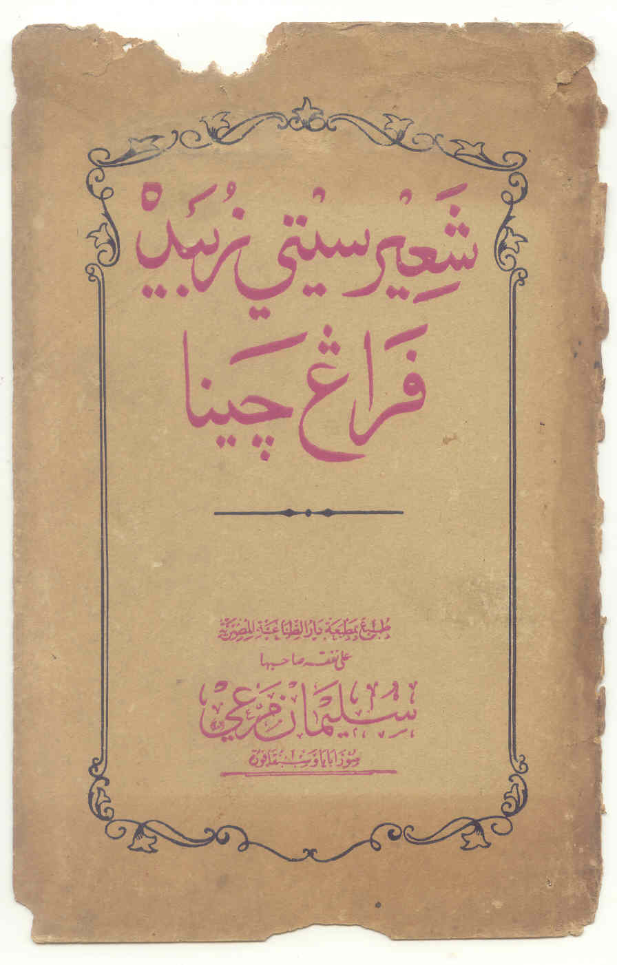 Title page of a Singapore lithograph of the Syair Siti Zubaidah Perang Cina (mid-19th century)